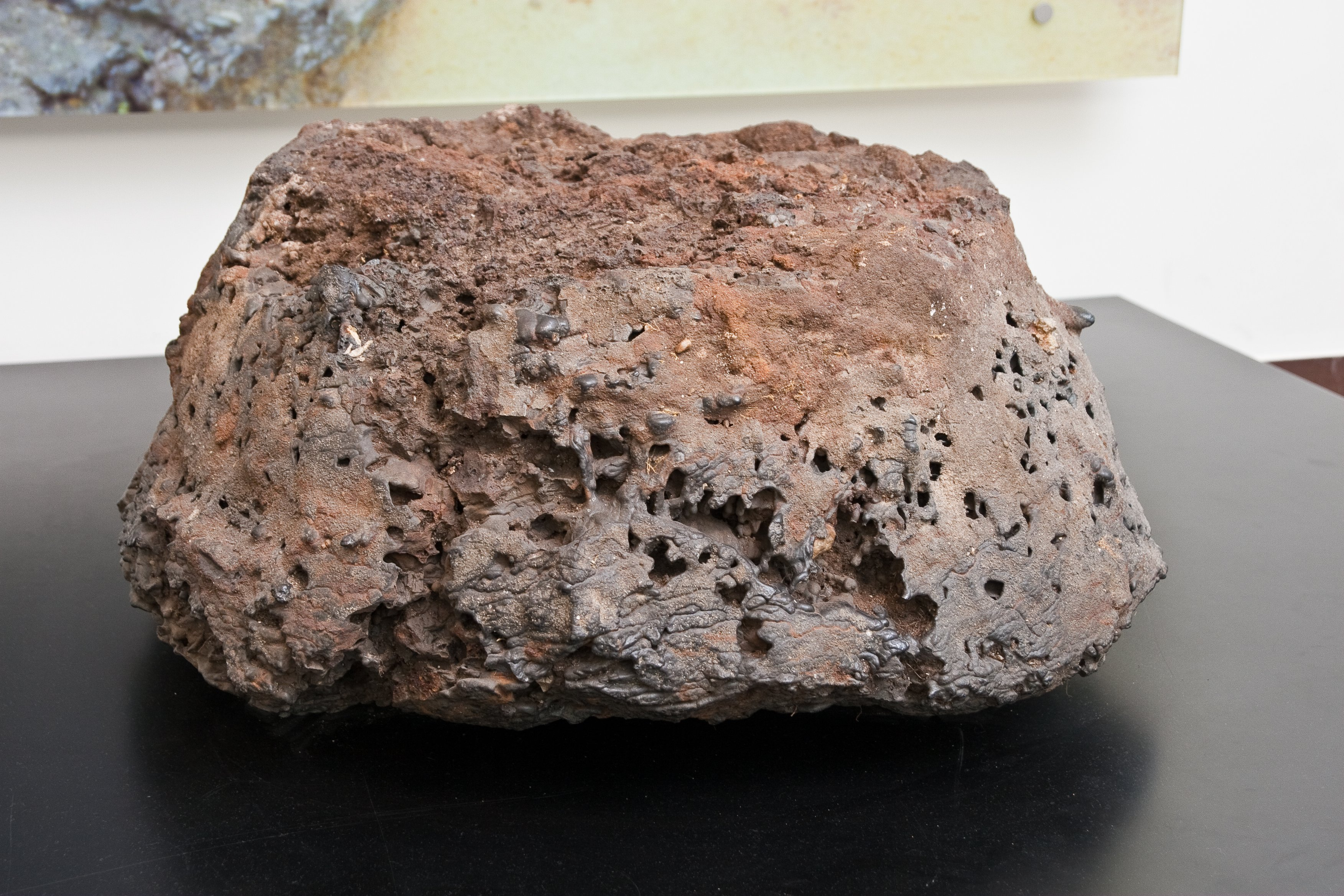 A 200 kg lump of slag from iron ore melting. It was found near Snorup in western Jutland, Denmark. It's estimated that it's from around 200-500 AD.